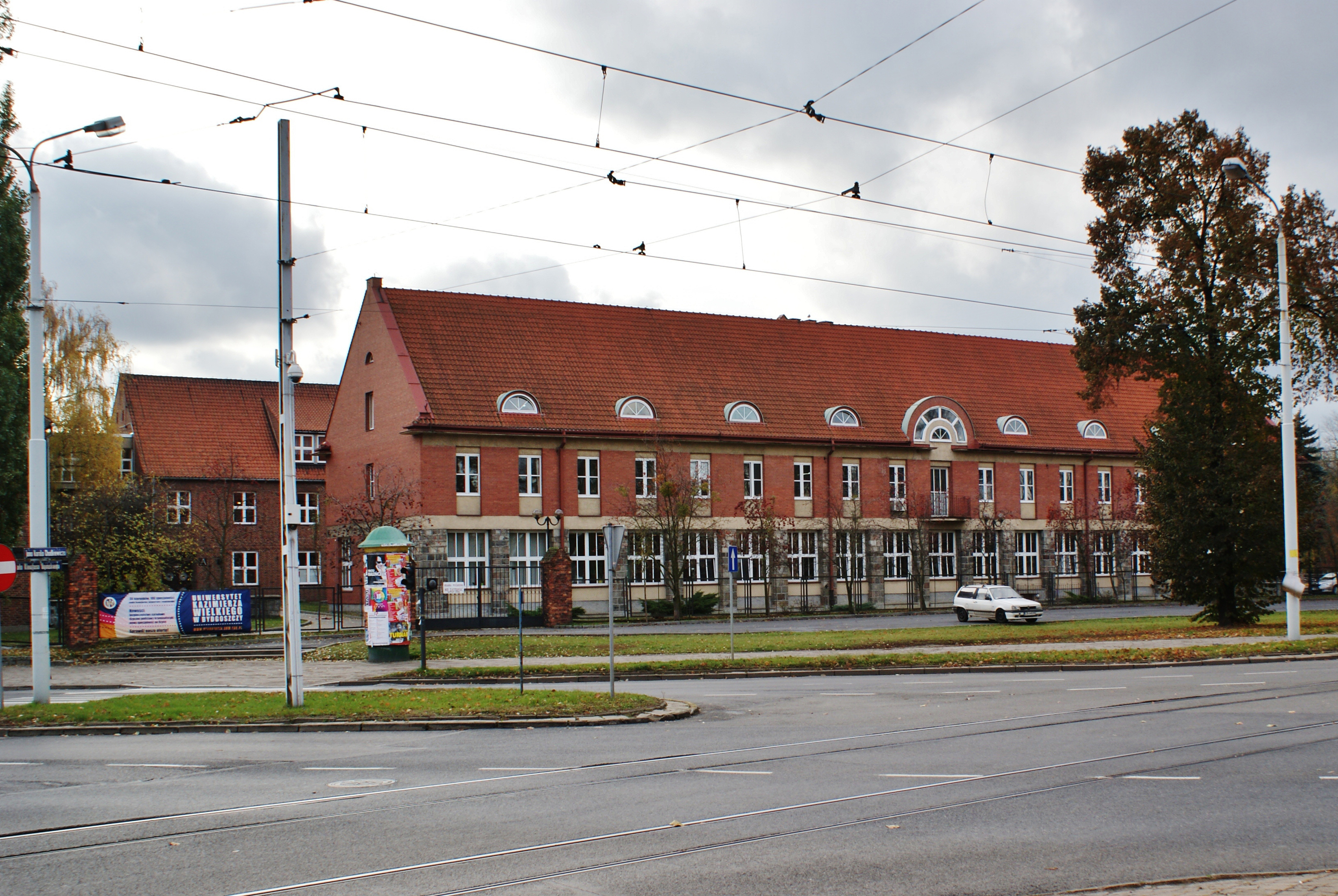 Casimir the Great University, Collegium Maius (Latin for: great college, main campus), Chodkiewicza Str., Bydgoszcz, Kuyavian-Pomeranian Voivodeship, Poland